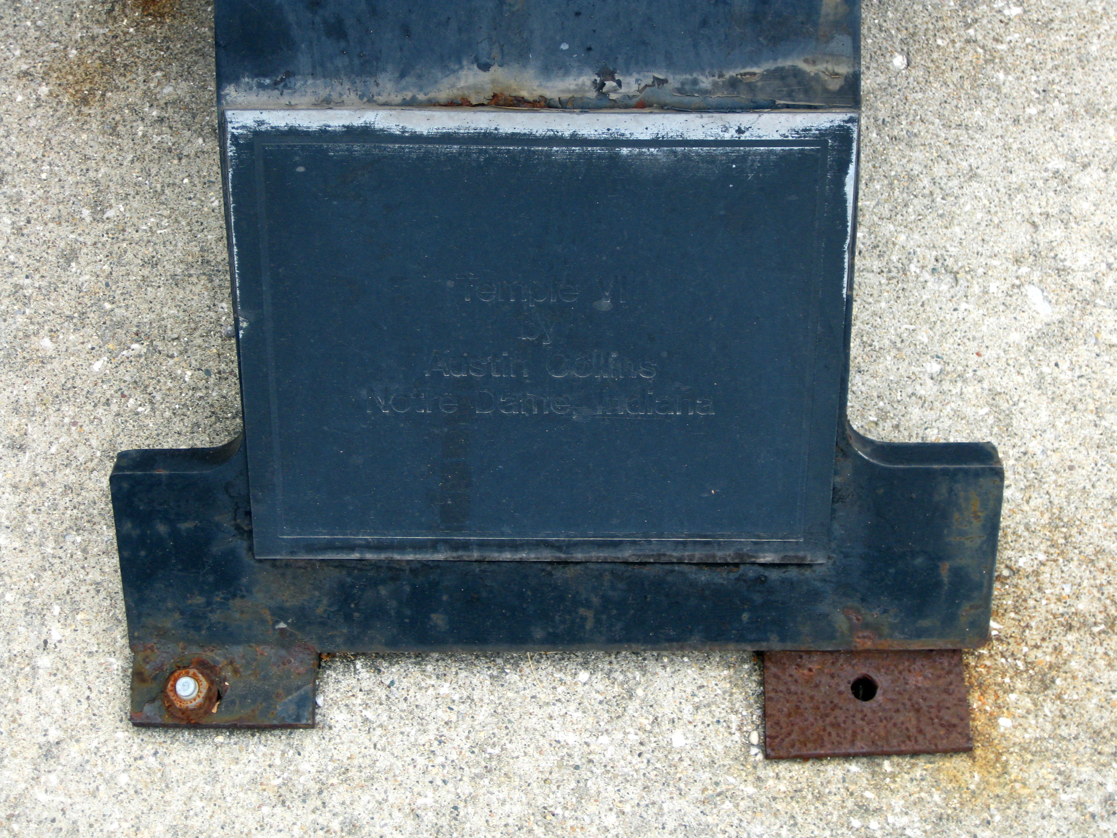 Temple VI Foundry Mark, telling the title, artist, and original location of the scultpure. It reads "Temple VI by Austin Collins Notre Dame, Indiana". Sculpture by artist Austin Collins, 1996. IUPUI.